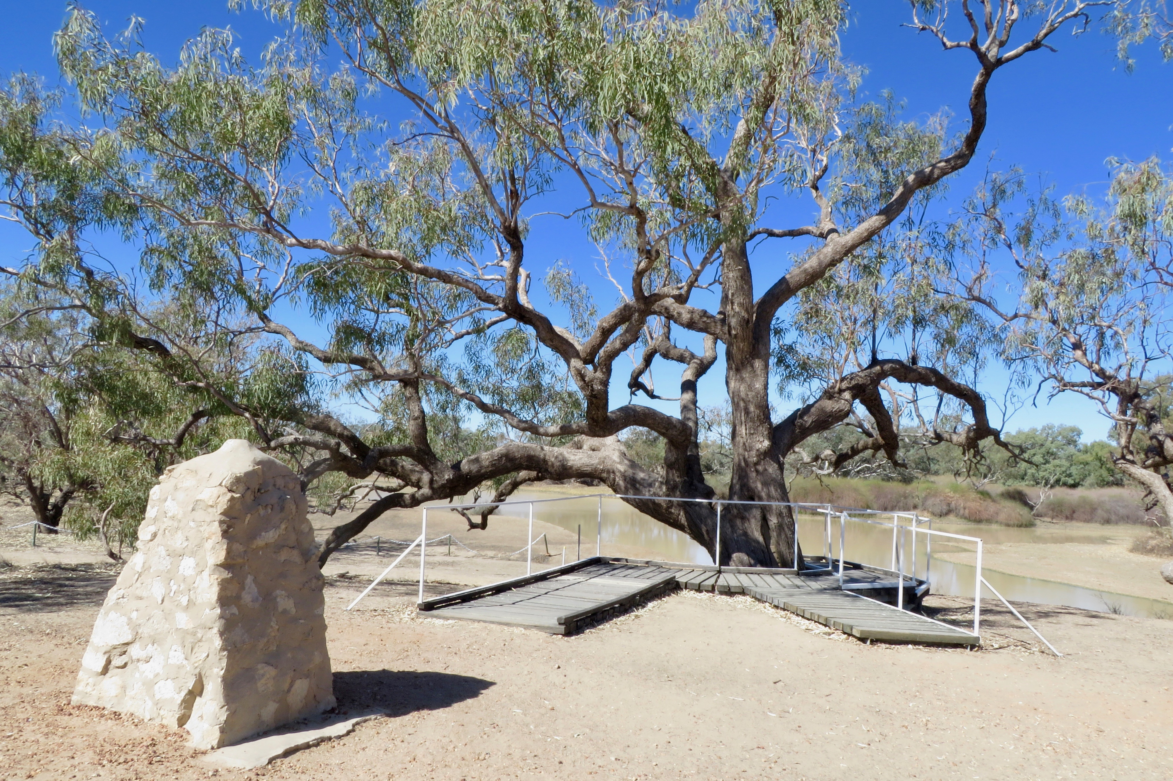 The Dig Tree, at the Burke, Wills, King and Yandruwandha National Heritage Place, a South Australian Historical heritage site.